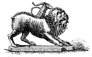 A 1906 engraving of the so called "'Chimera of Arezzo". It is an Etruscan bronze statue of the mythological monster chimera, on display in the Archaeological museum in Florence, Italy.